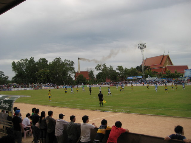 Pattaya United vs Nakhon Pathom